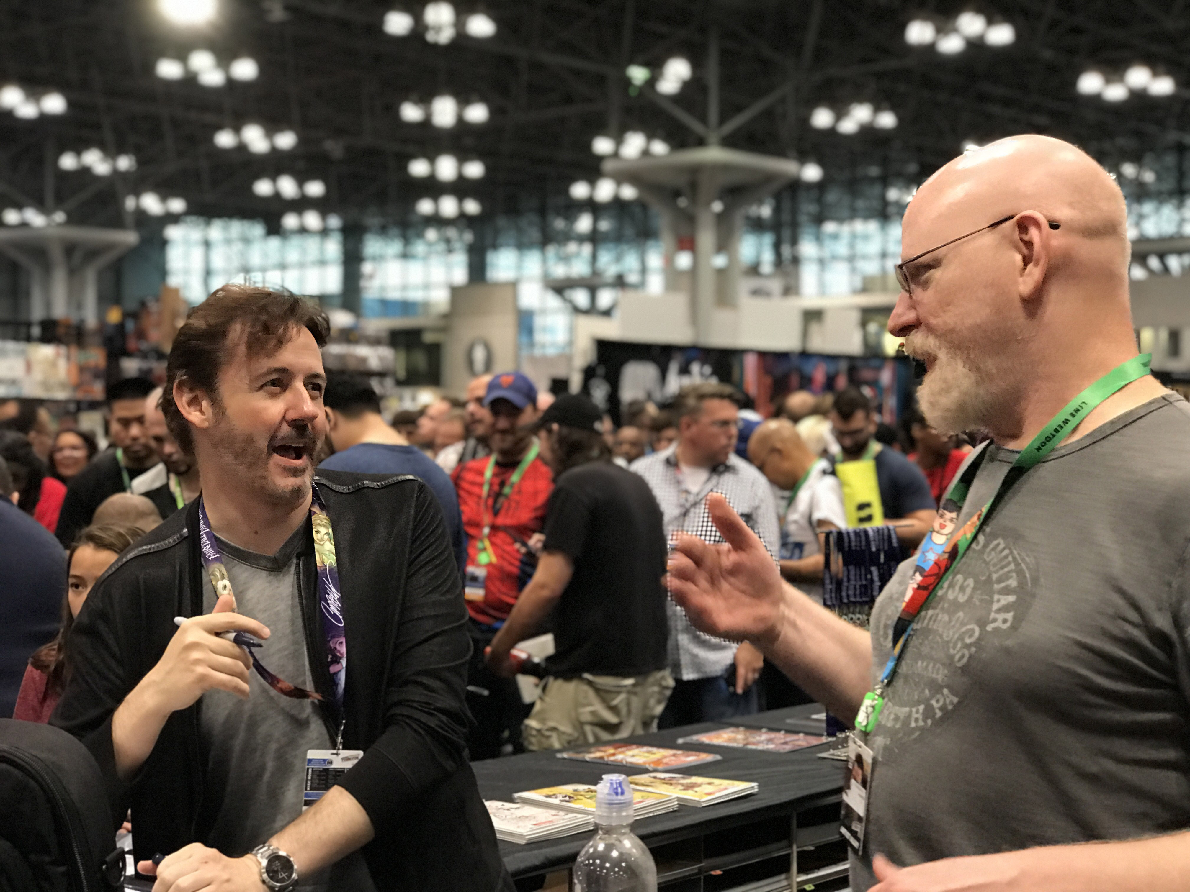 Comics illustrators J. Scott Campbell and Arthur Adams at Campbell's booth on the Showroom Floor at the Jacob K. Javits Convention Center in Manhattan, on Sunday, October 8, 2017, Day 4 of the 2017 New York Comic Con. This photo was created by Luigi Novi. It is not in the public domain, and use of this file outside of the licensing terms is a copyright violation.